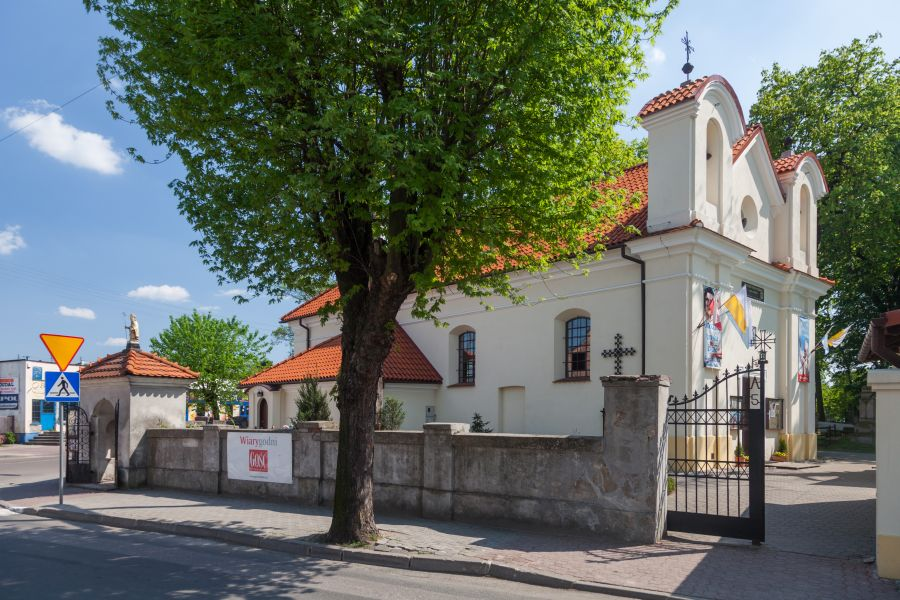 Church of St. Stanislaus in Skierniewice, Poland.